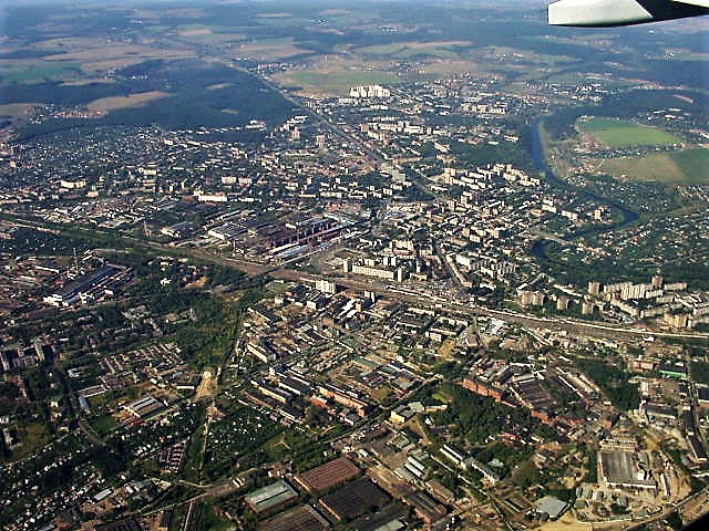 Aerial view of Podolsk town